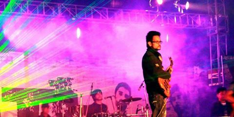 This is Synchronians event of Exodia 2012. The photo is taken by Madhavpratap's camera.